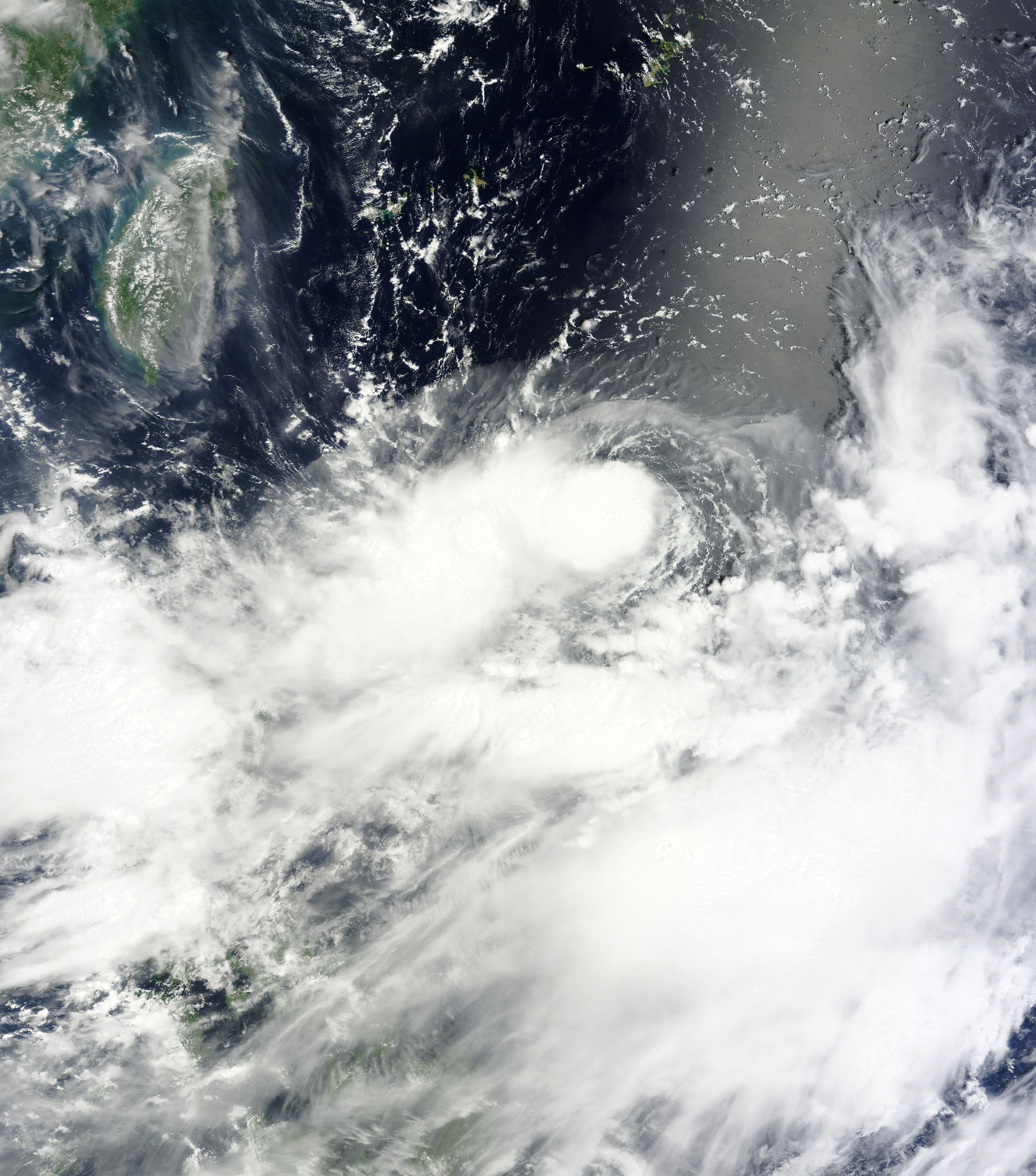 Tropical Storm Trami on August 18, 2013